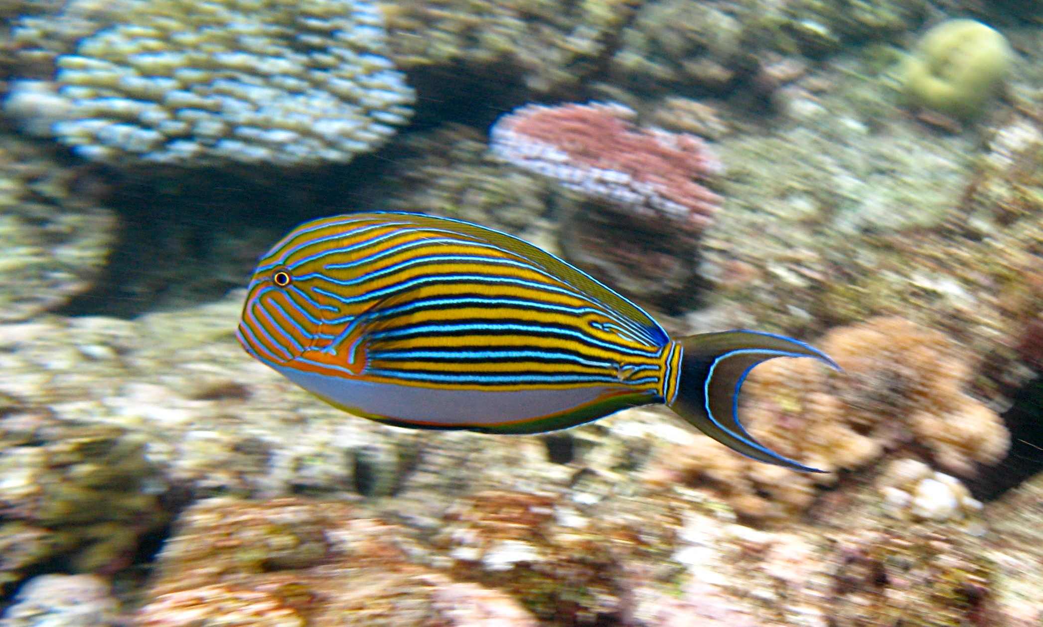 Striped Surgeon (Acanthurus lineatus) on Flynn reef (near Cairns), Great Barrier Reef, Queensland, Australia.